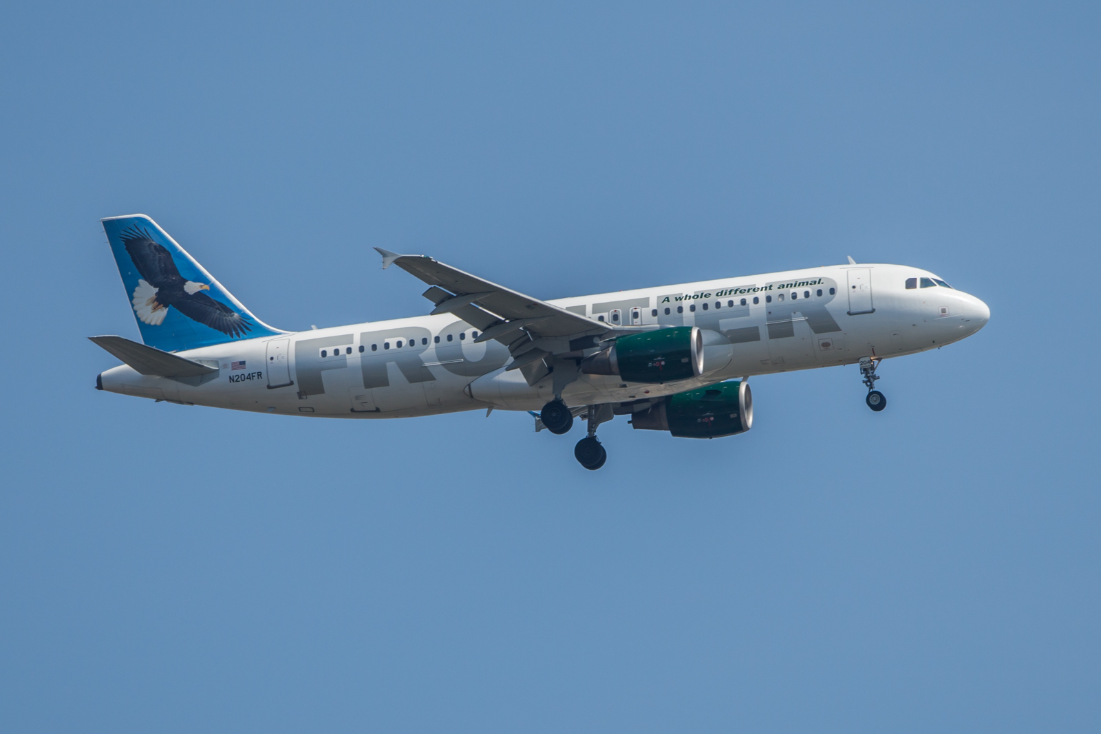 Frontier Airlines Airbus A320 landing at Ronald Reagan Washington National Airport